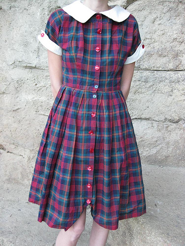 Vintage plaid 1950s shirtwaist dress